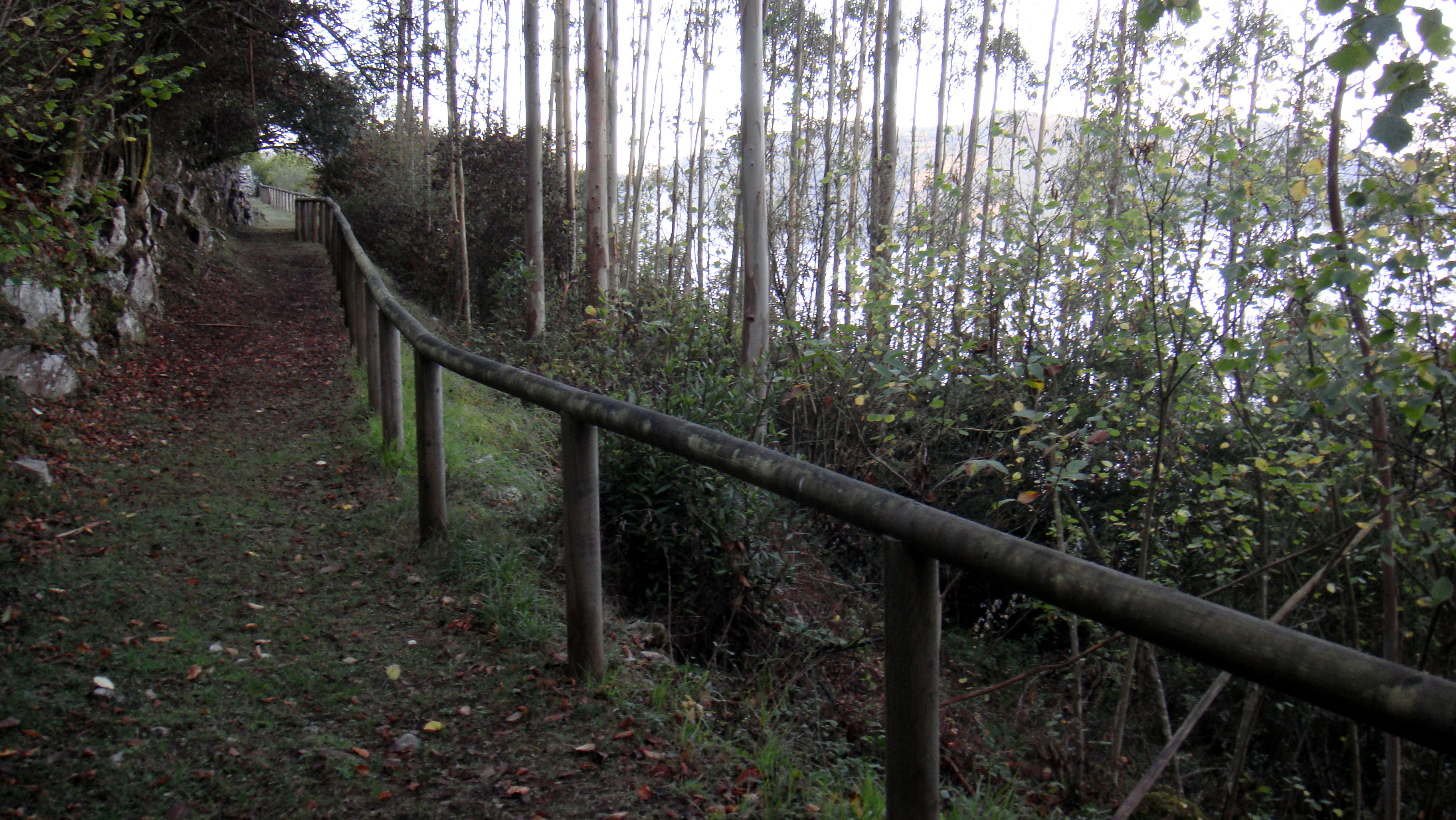 Cave of the Peña de Candamo. World Heritage. Paleolithic drawings.